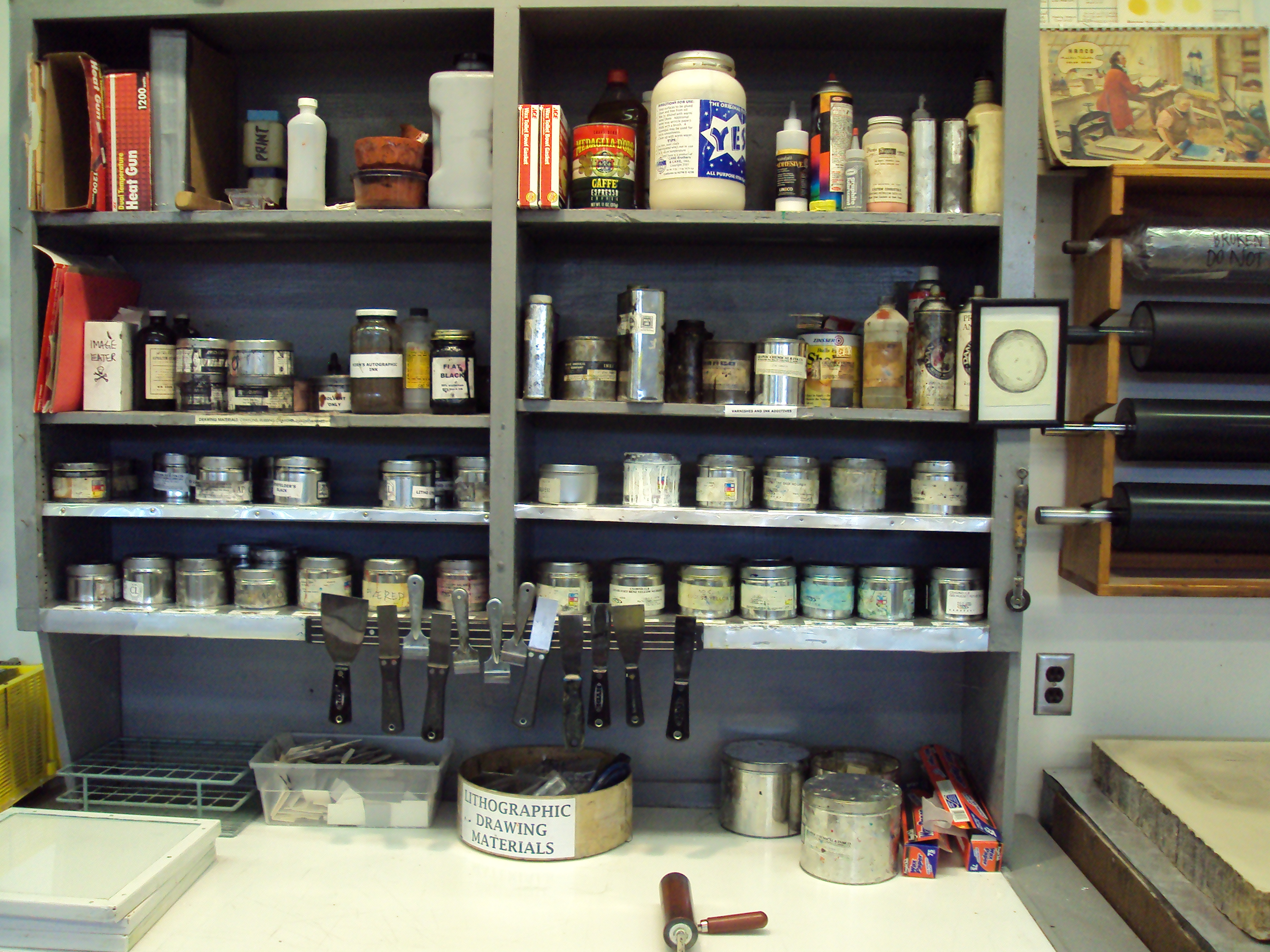 This image of printing inks and additives was taken in the Printmaking Department of the Univeristy of Tennessee at Knoxville.